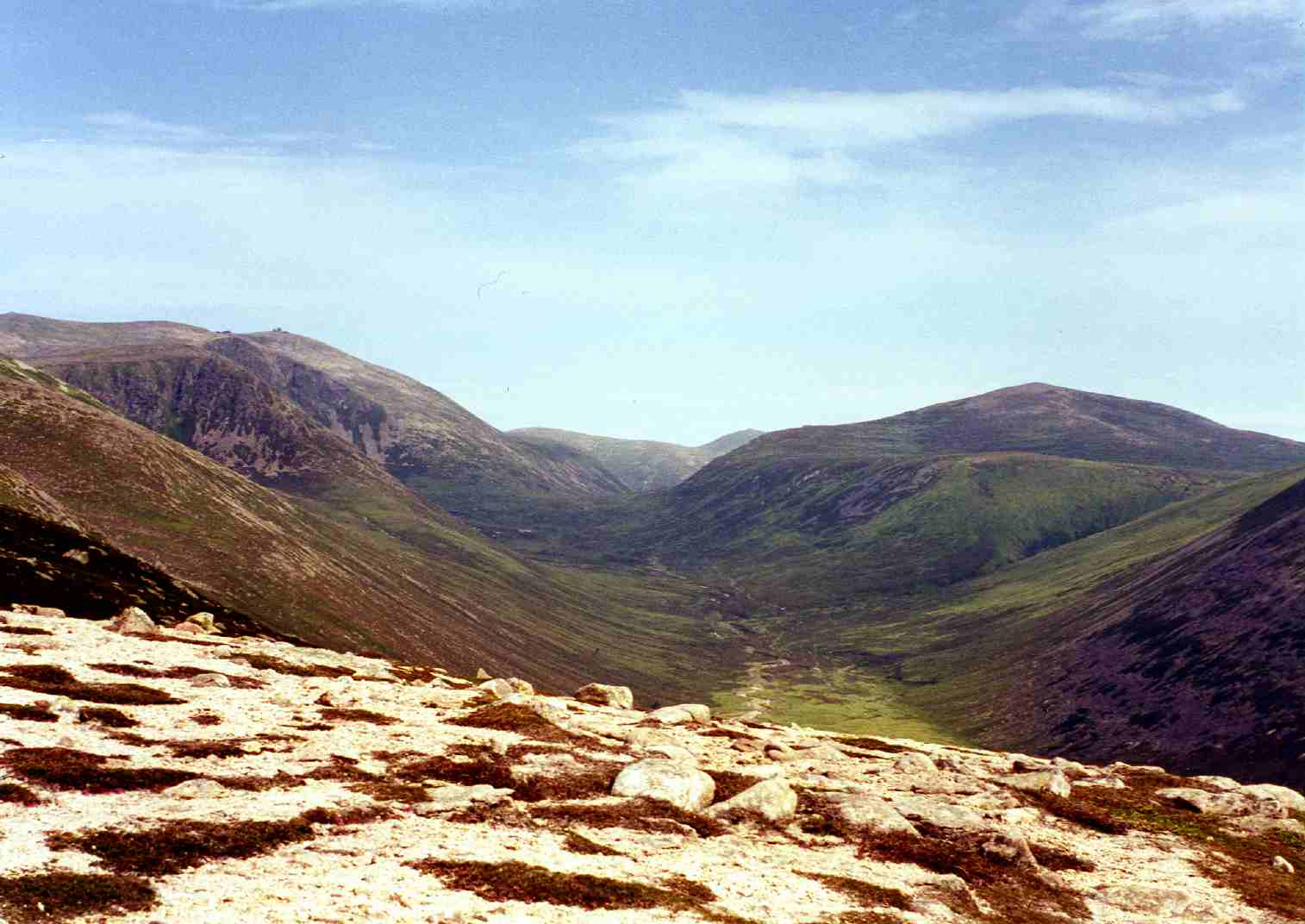 Personal photograph taken by Mick Knapton